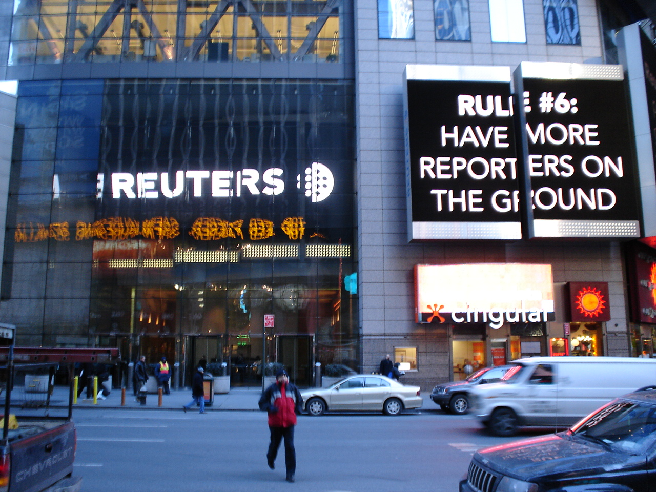 Street scene in New York City